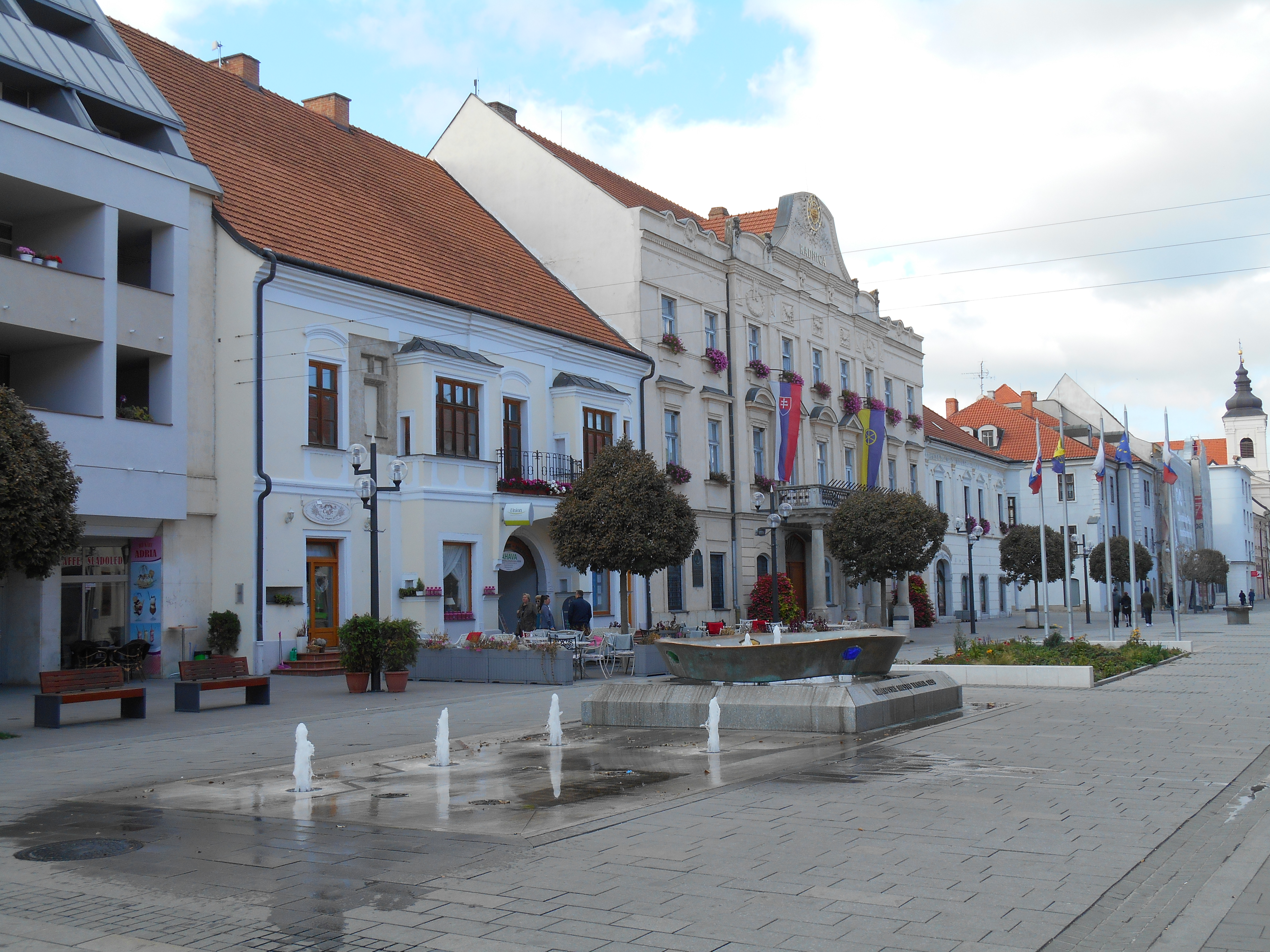 Slovakia - Trnava - Town Hall